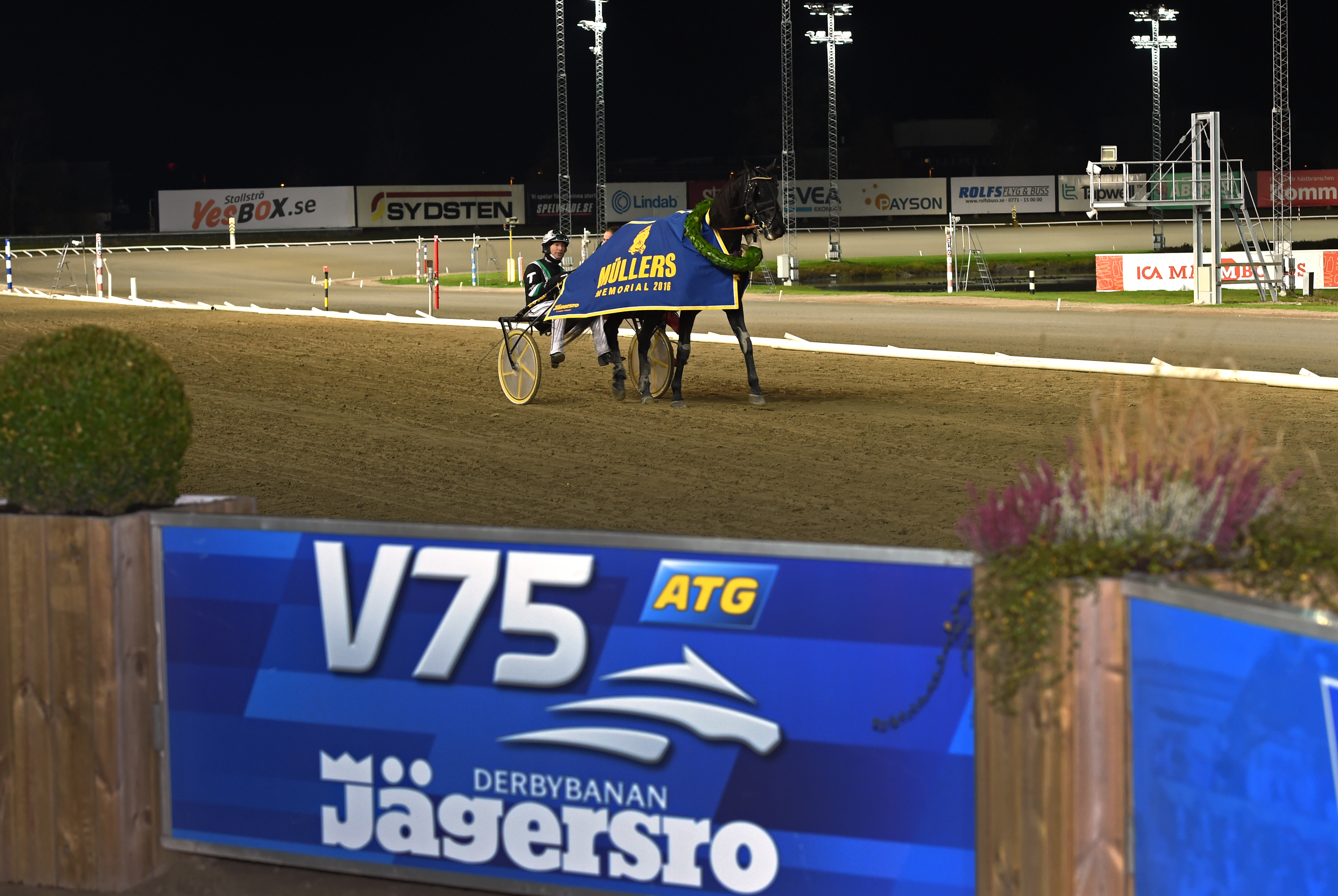 On Track Piraten and driver Johnny Takter after winning C.L. Müllers Memorial, 2016-10-29.